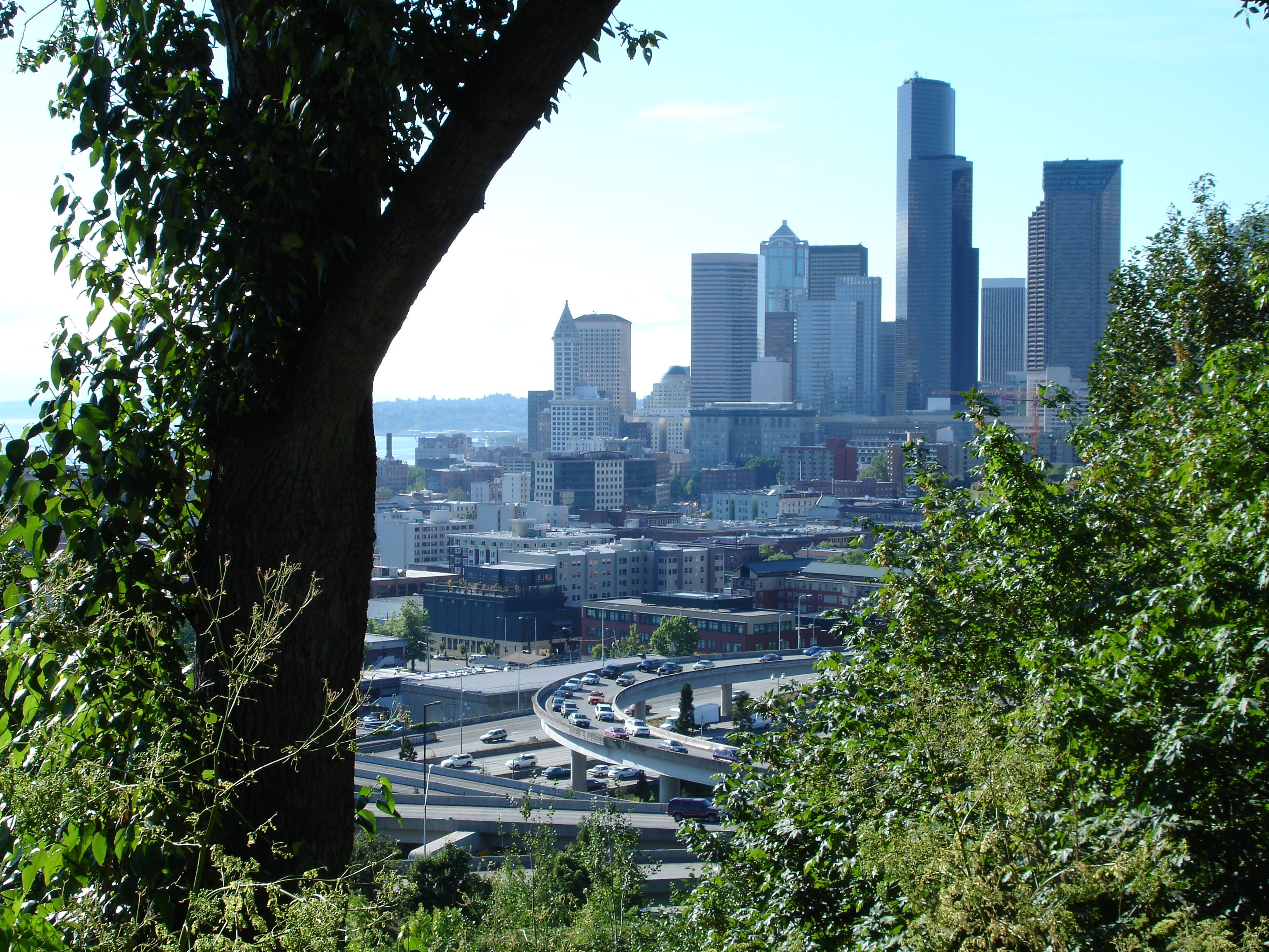 Downtown Seattle skyline from Beacon Hill (probably from Jose P. Rizal Park)